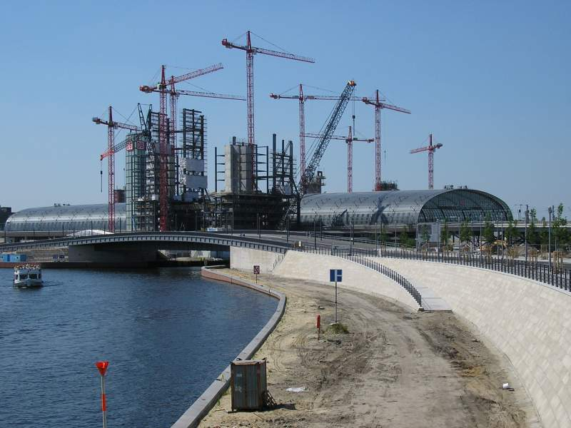 Construction works at the Berlin "Central station"